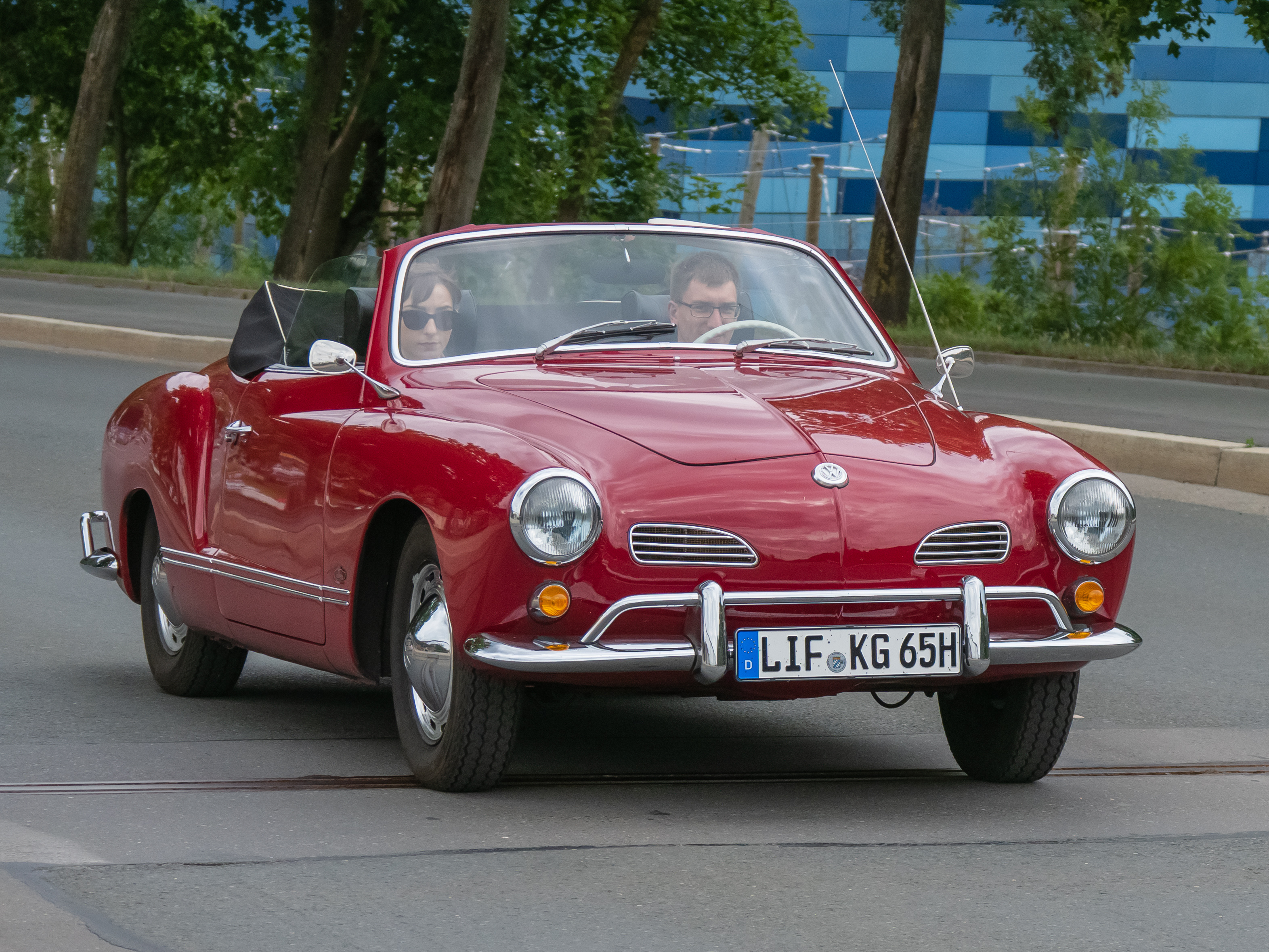 Karmann Ghia convertible at the Kulmbach 2018 Oldtimer Meeting